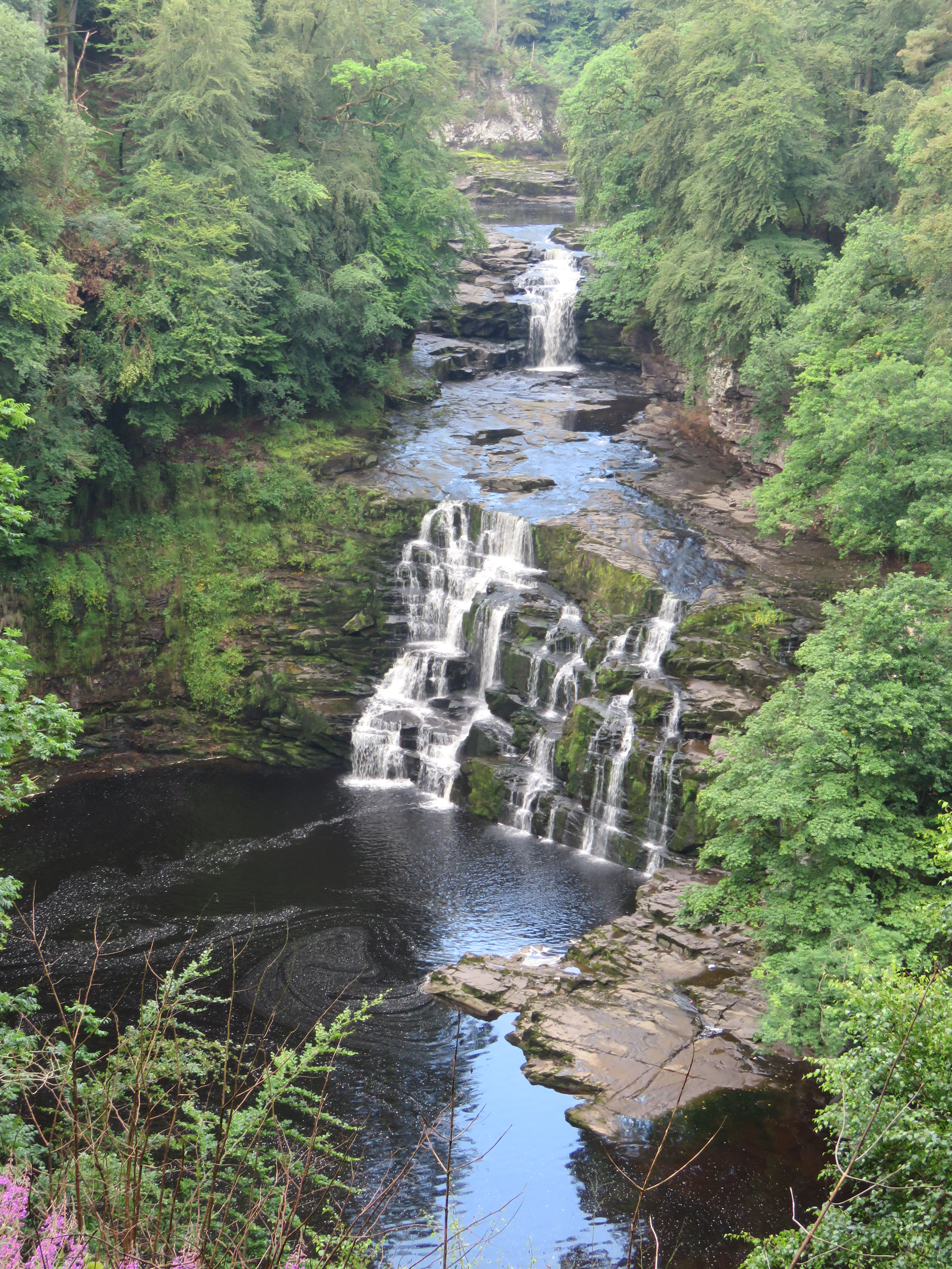 Clyde Falls, near New Lanark, Scotland